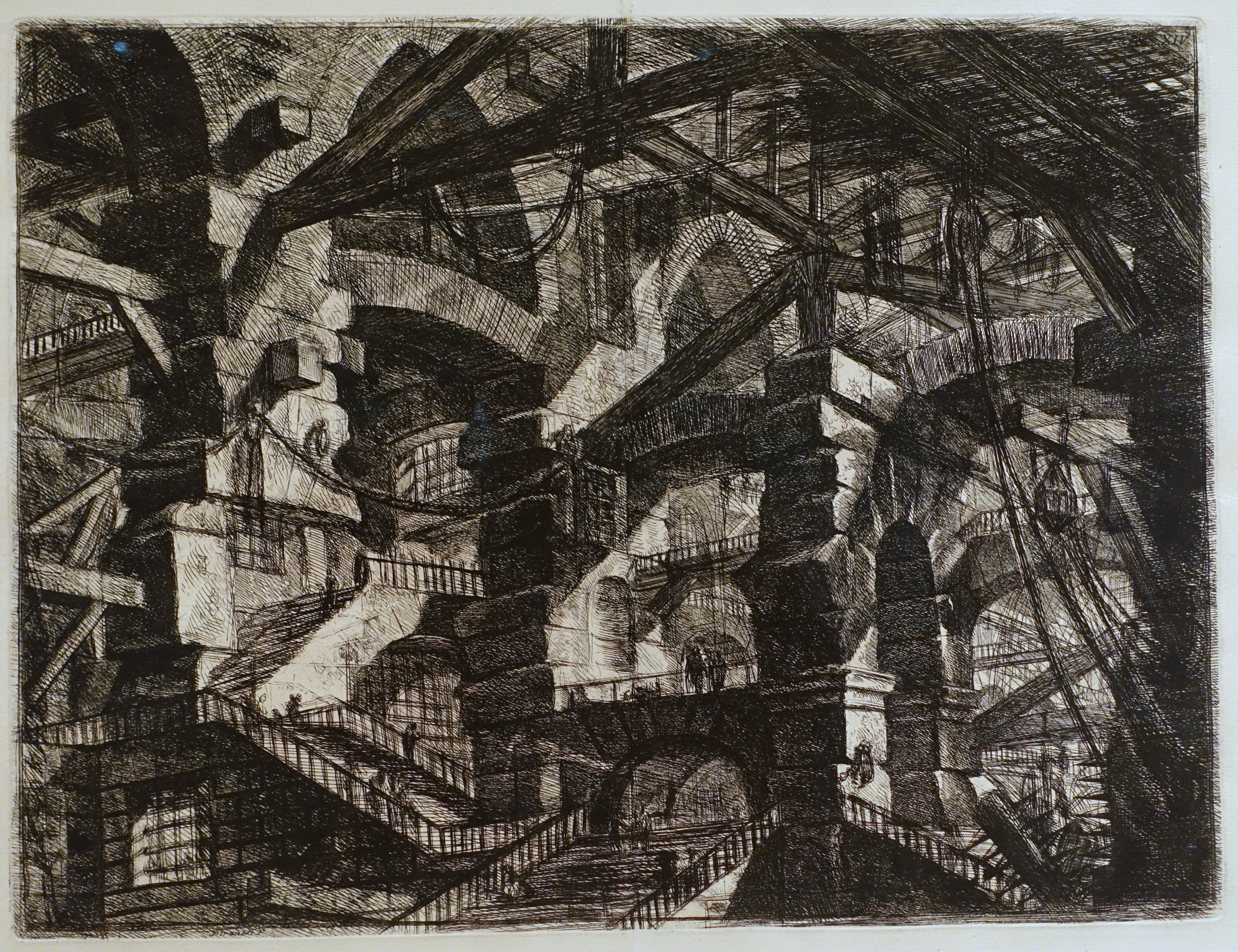 Le Carceri d'Invenzione - Second Edition. Print by by Giovanni Battista Piranesi in the Museum Berggruen, Schloßstraße 1, 14059 Berlin, Germany. This artwork is in the public domain because its creator died more than 100 years ago.